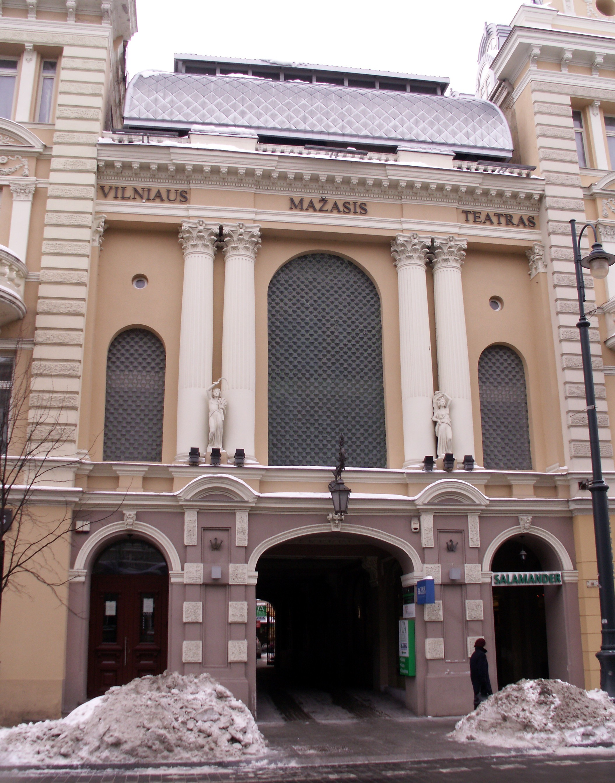 Theater in Vilnius, Lithuania